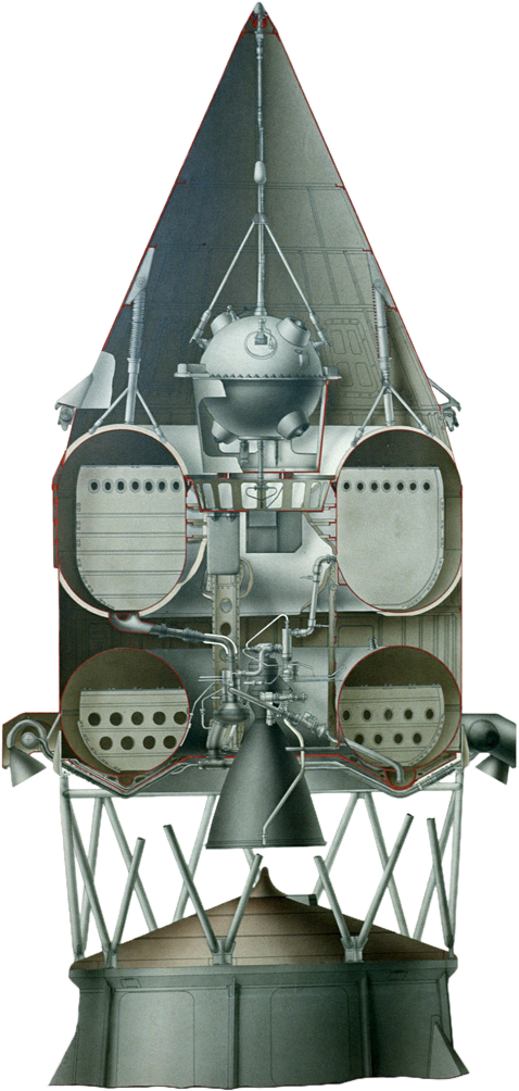 Block-E rocket stage as used in the Luna rocket.